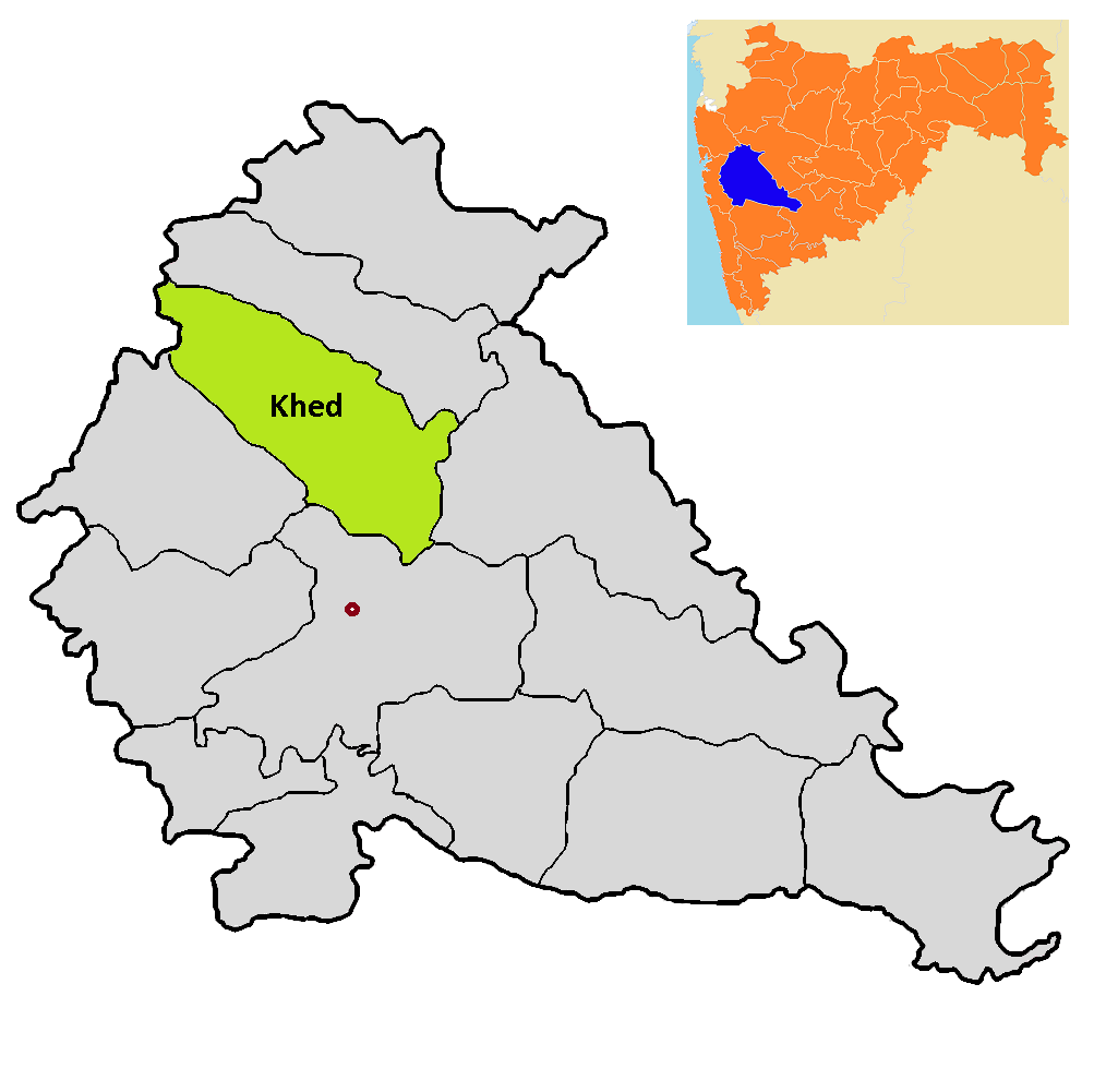 Khed tehsil in Pune district